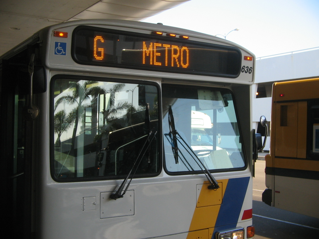 The LAX shuttle that runs to and from the Green line